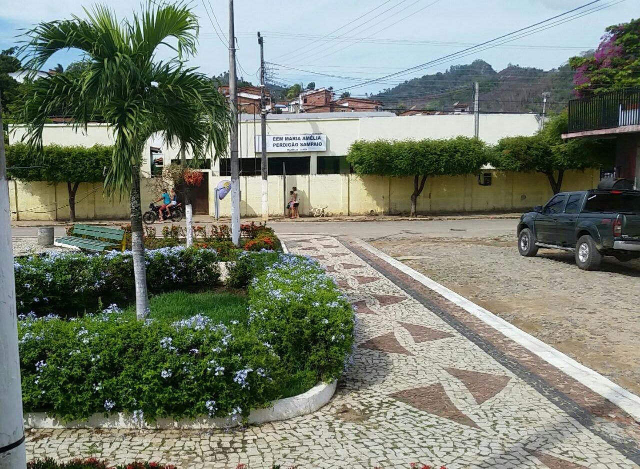 EEEM Maria Amélia Perdigão Sampaio